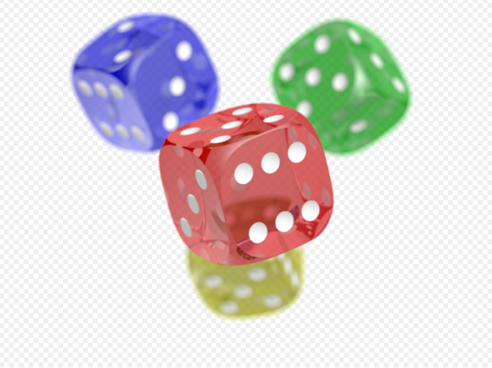 PNG transparency demonstration24bit PNG with 8bit alpha layer